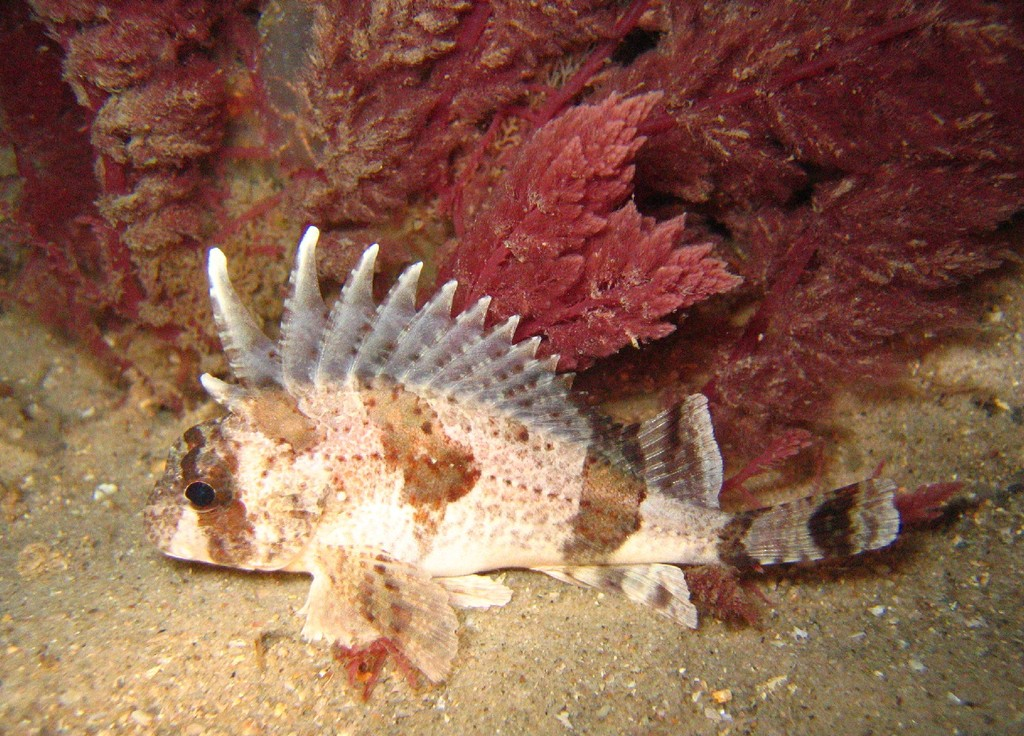 A Fortescue (Centropogon australis) resting on sand. Fly Point, Port Stephens, NSW